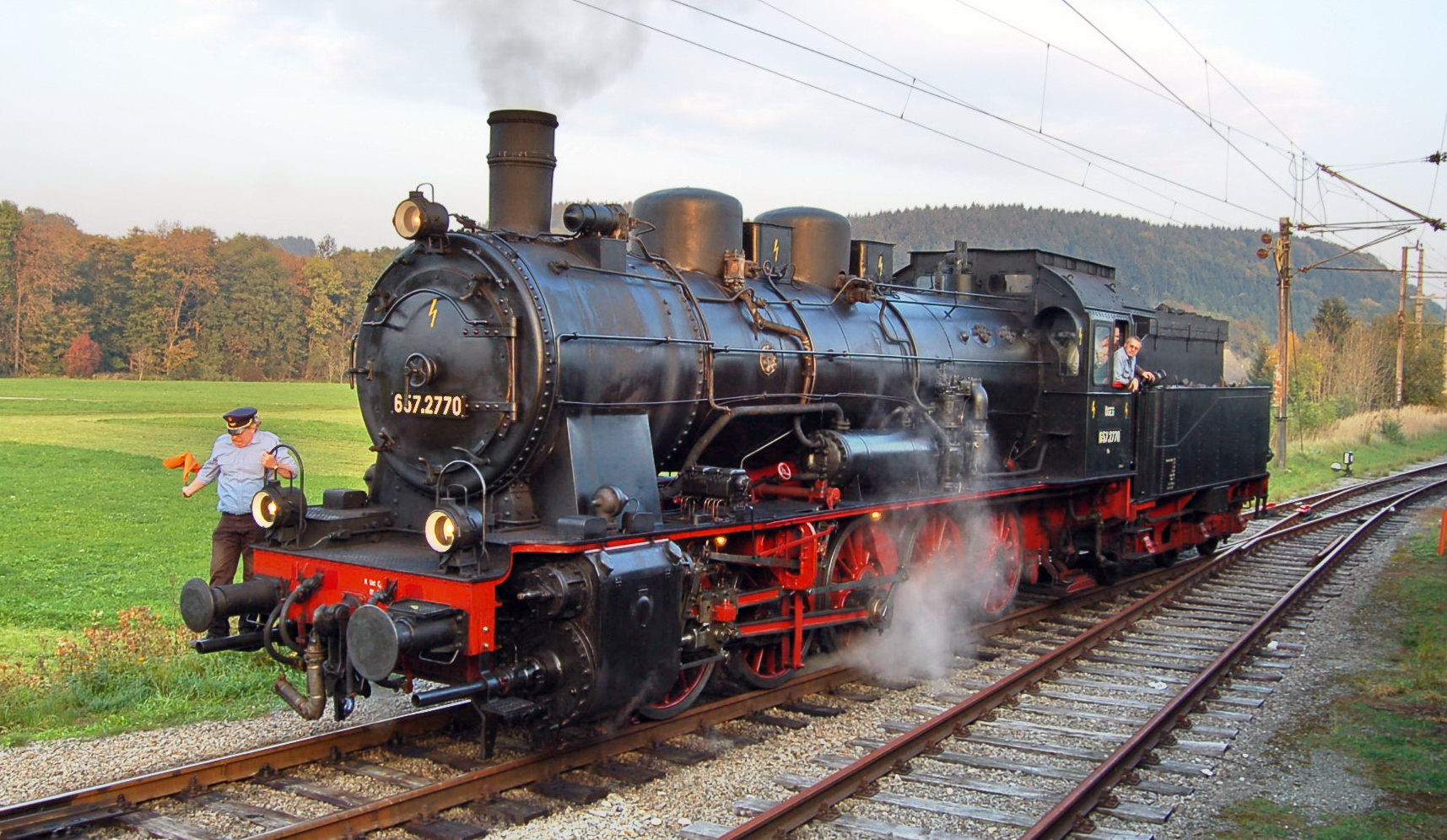 OeBB 657.2770 class steam locomotive (now OeGEG - Austrain Society for Railway History) in Timelkam station, Upper Austria